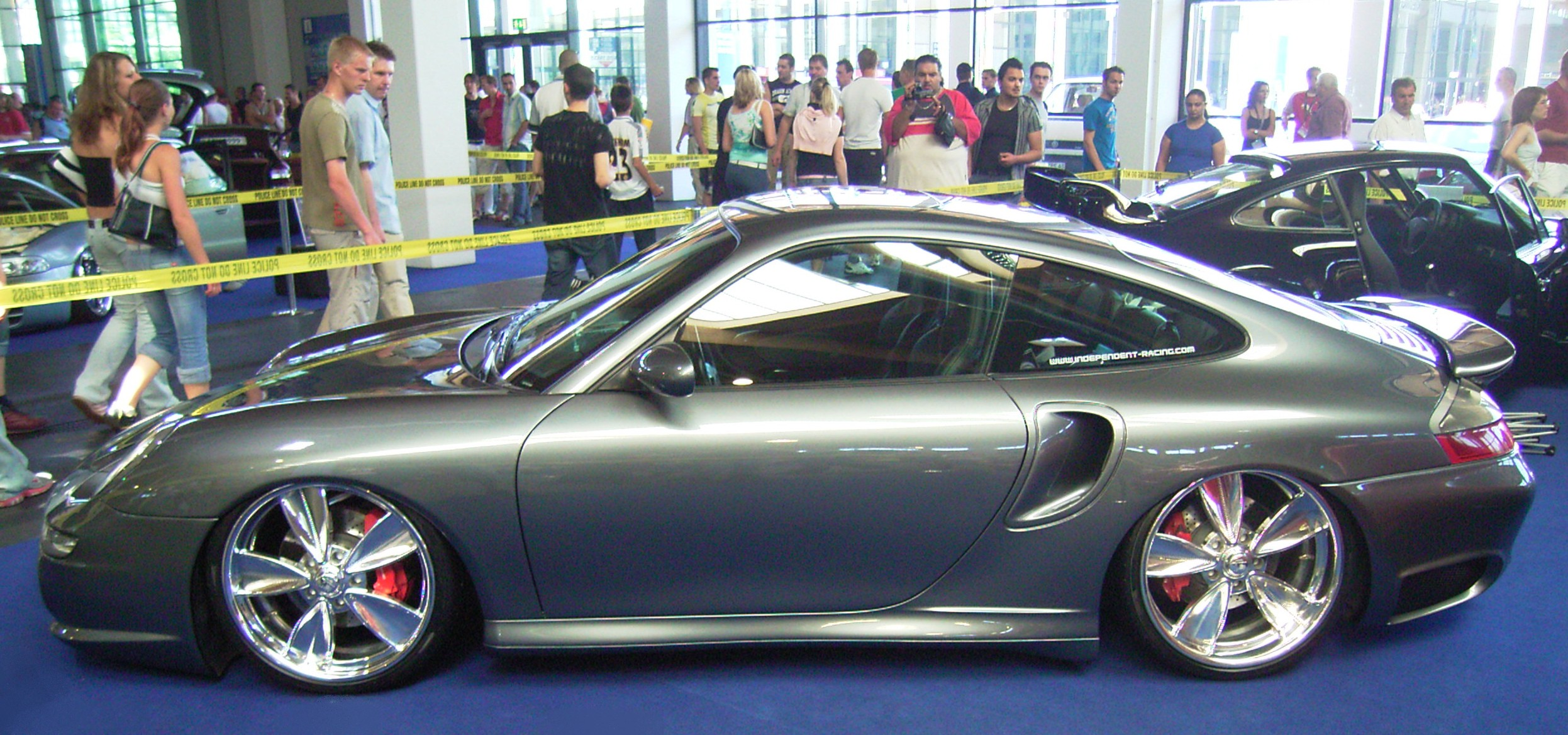 A tuned Porsche in Silver at The Tuning World Bodensee